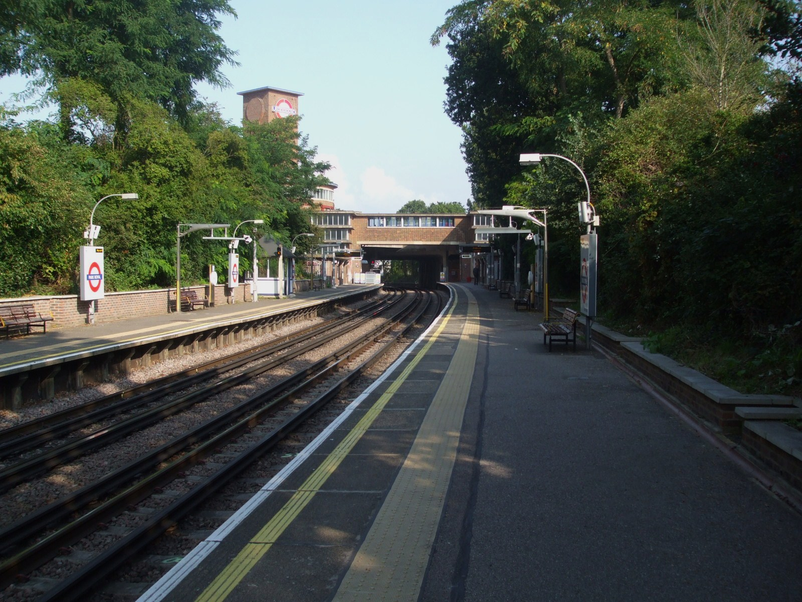 Park Royal tube station looking westbound (actually north here)